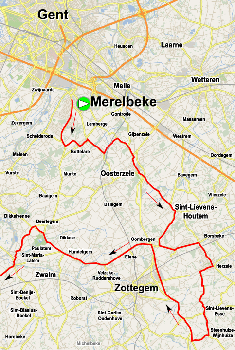 Circuit Het Nieuwsblad 2018, for women part 1 of the circuit. Reference: Roadmap version 03/12/2017, consulted on official website on 05/01/2018